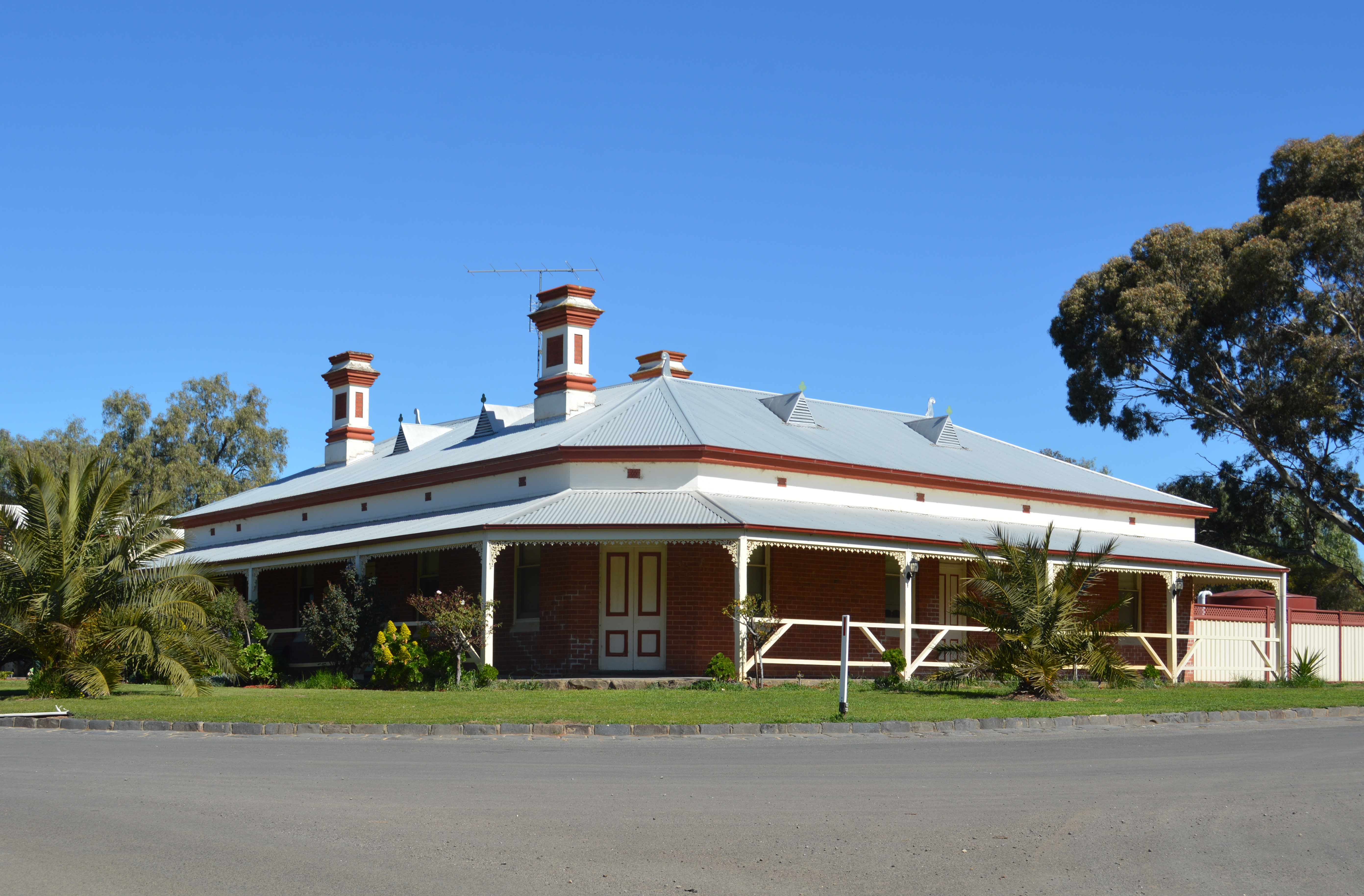 The former Neilborough Hotel at Neilborough, Victoria, now a private residence